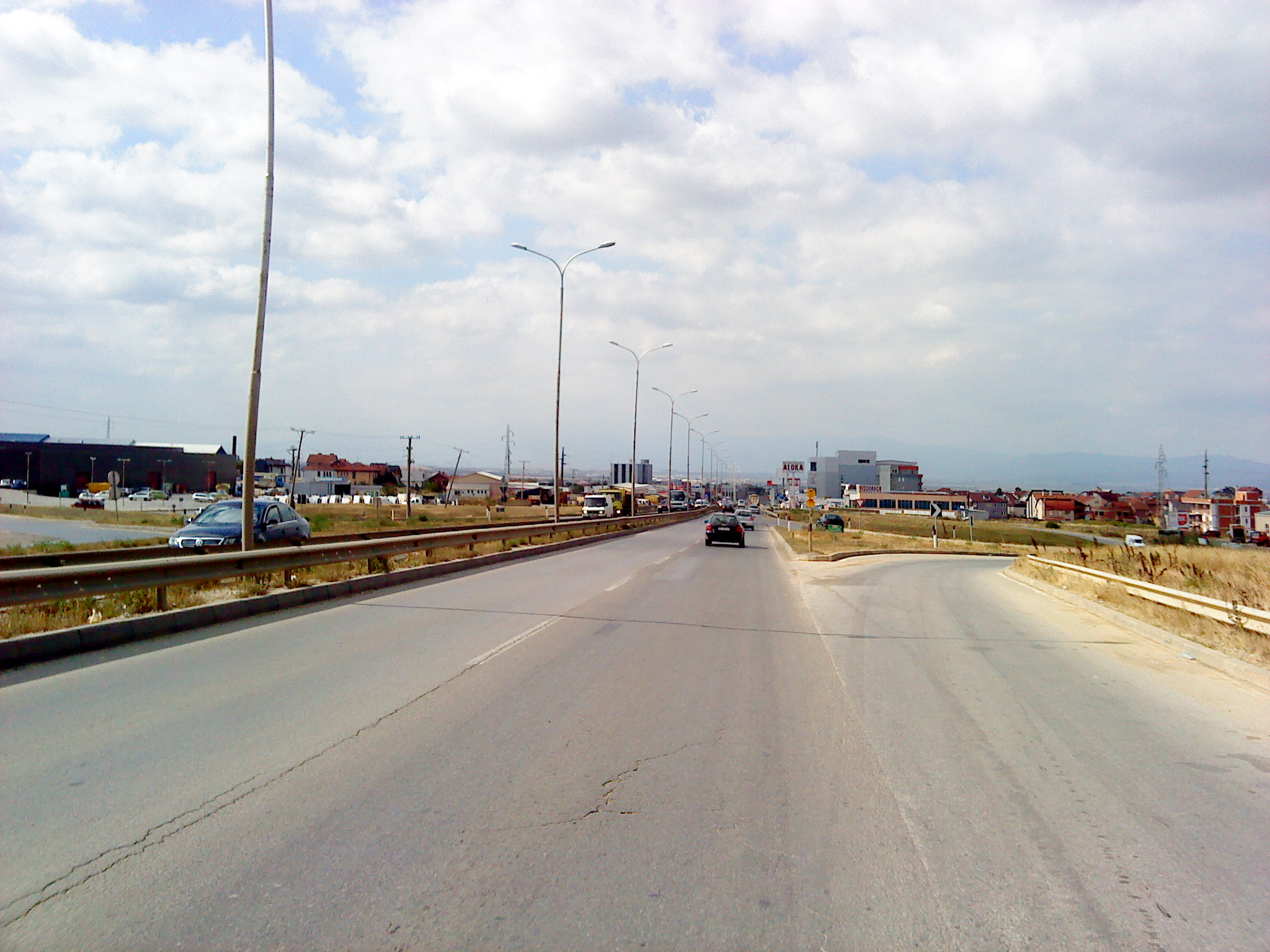 The National strett M2 in Kosovo south of Pristina